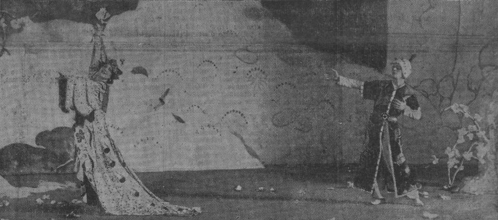 La Péri